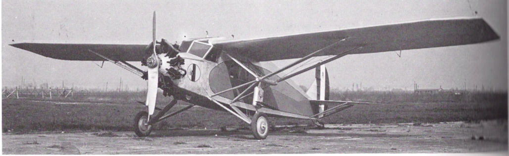 The single-engine version of the Caproni Ca.97 civil utility aircraft